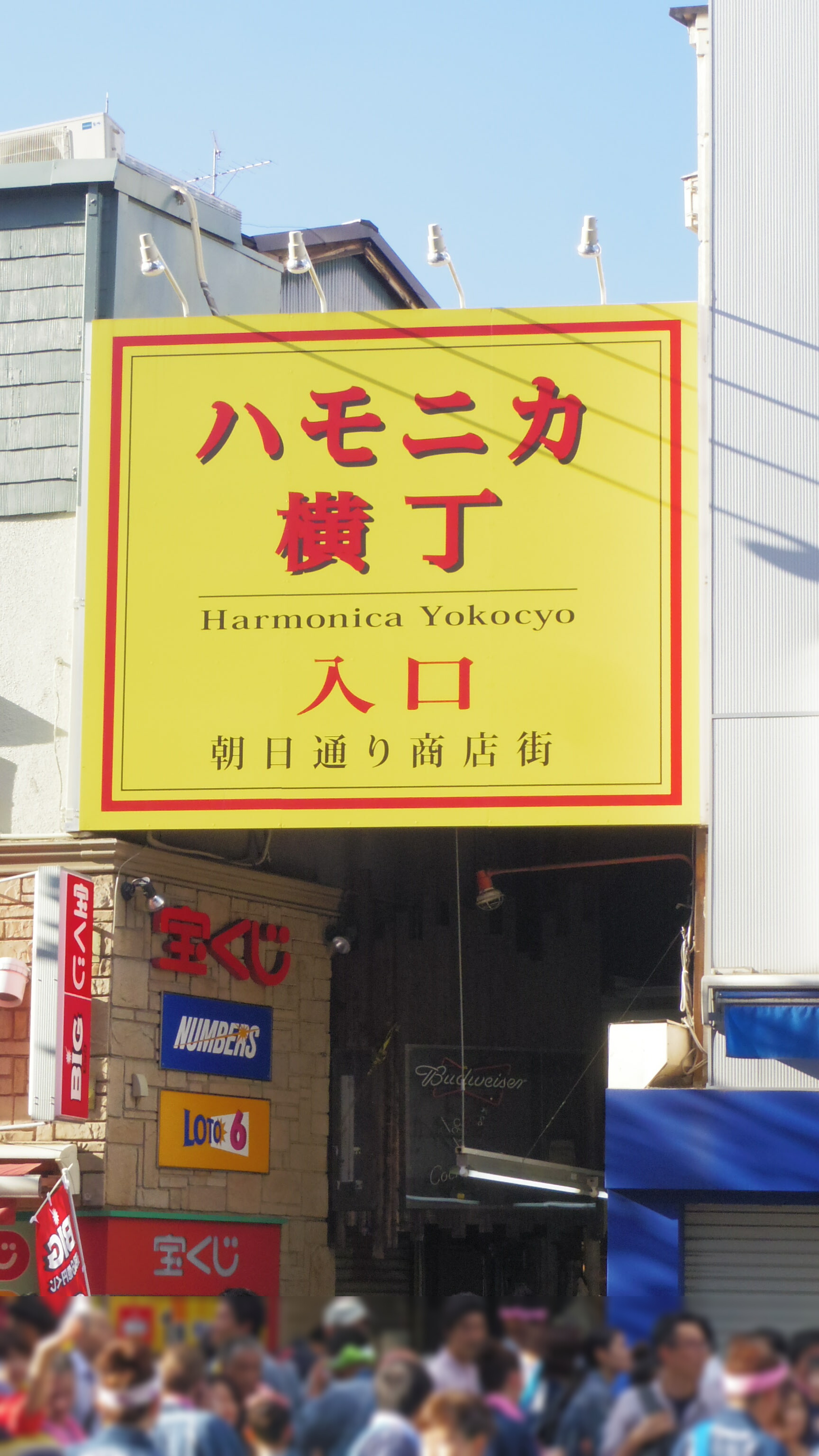 Harmonica side street by Kichijoji, Tokyo.